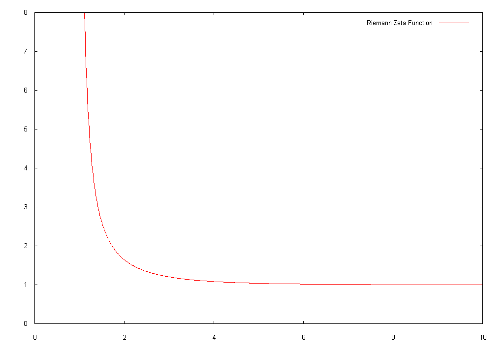 Riemann Zeta function on [0.0:10.0].